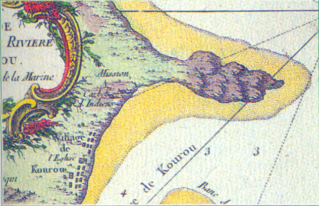 Detail of a map of Kourou showing the old Jesuit mission, already abandoned, and the Pointe des Roches.